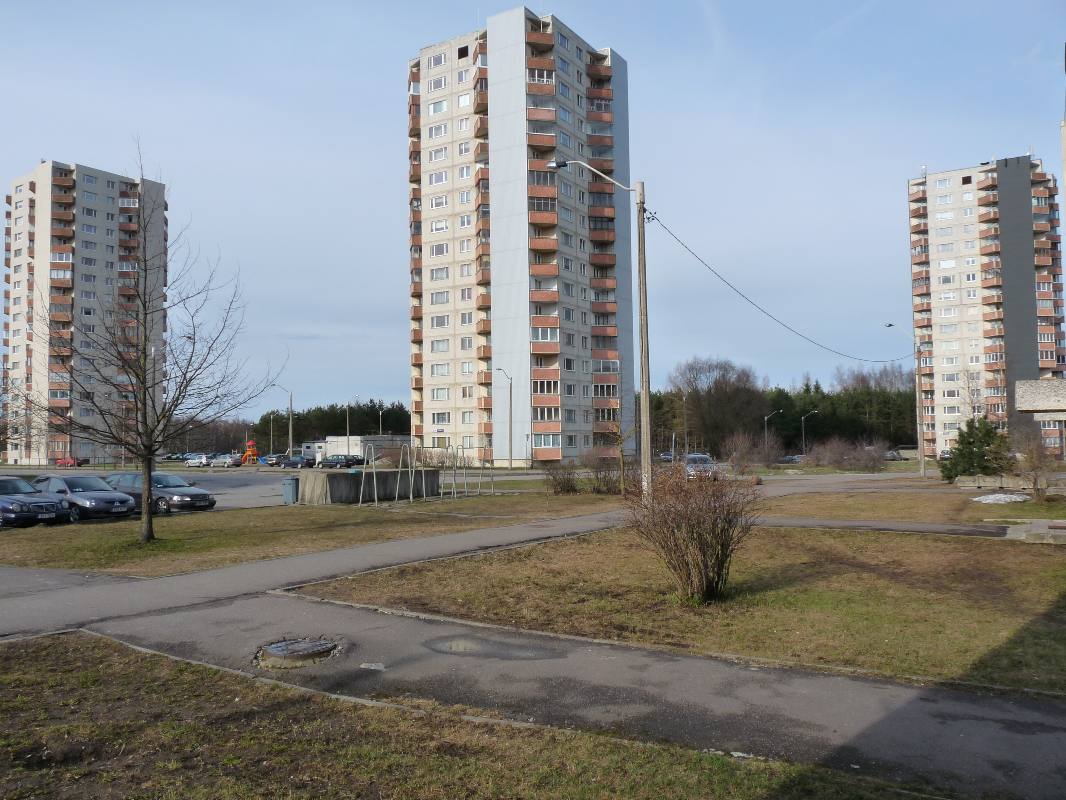 Tower blocks in Ümera street